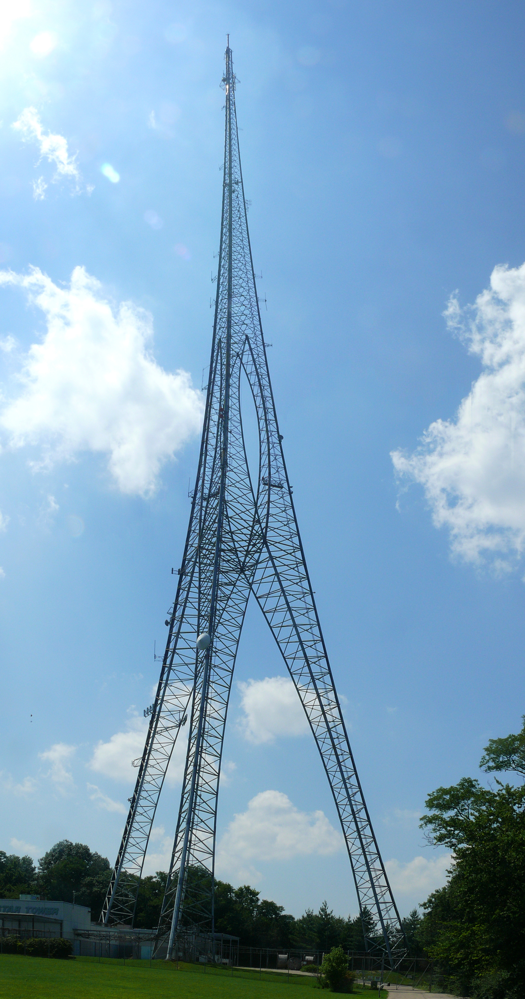 Star Tower in Cincinnati, OH Photo by Greg Hume.